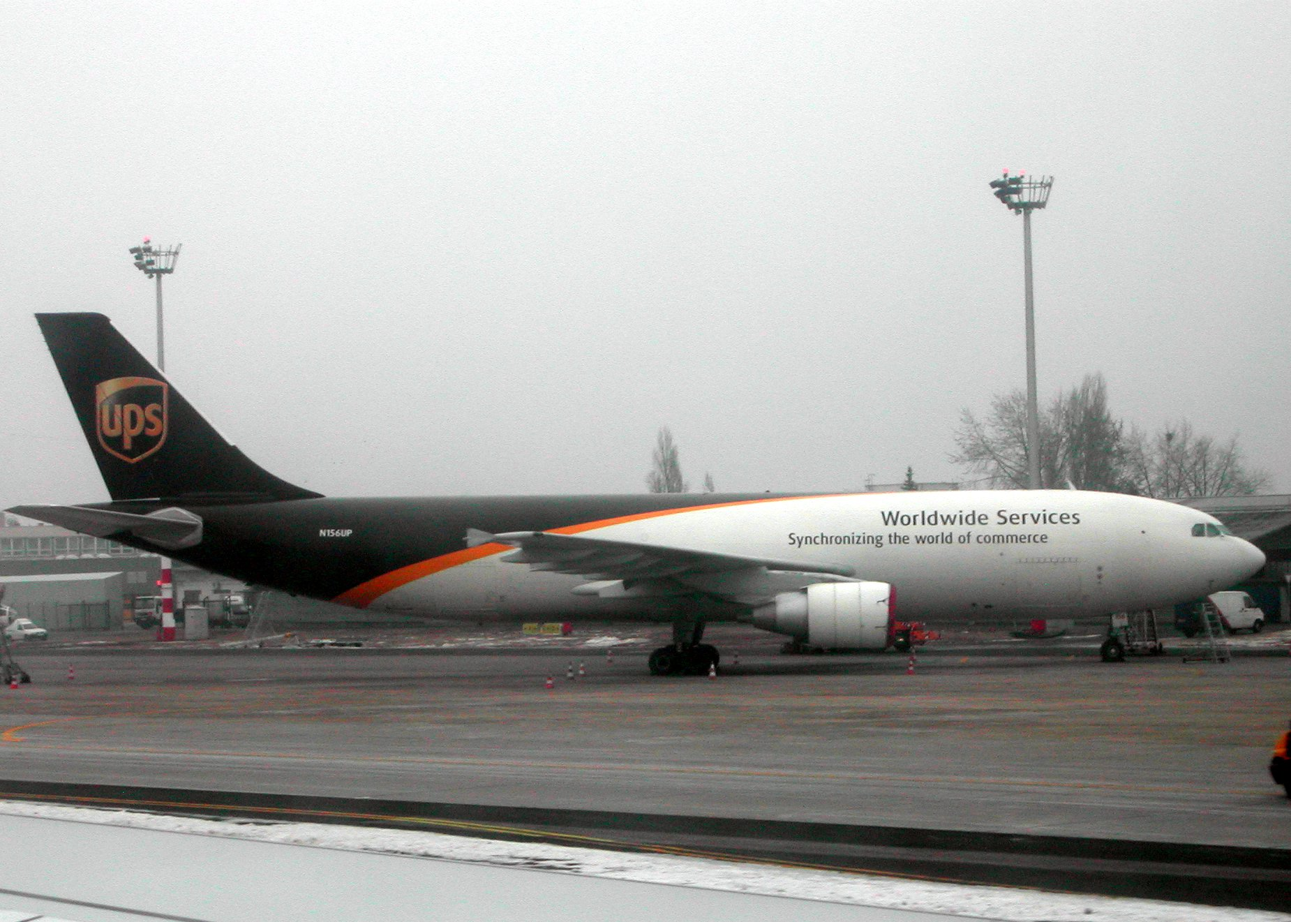 Airbus A300F4-622R UPS Registration: N156UP. Photo taken at the Budapest airport 30.01.2006. Author: Piotr_J